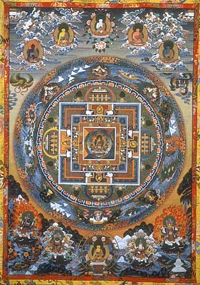 Buddhist Mandala.